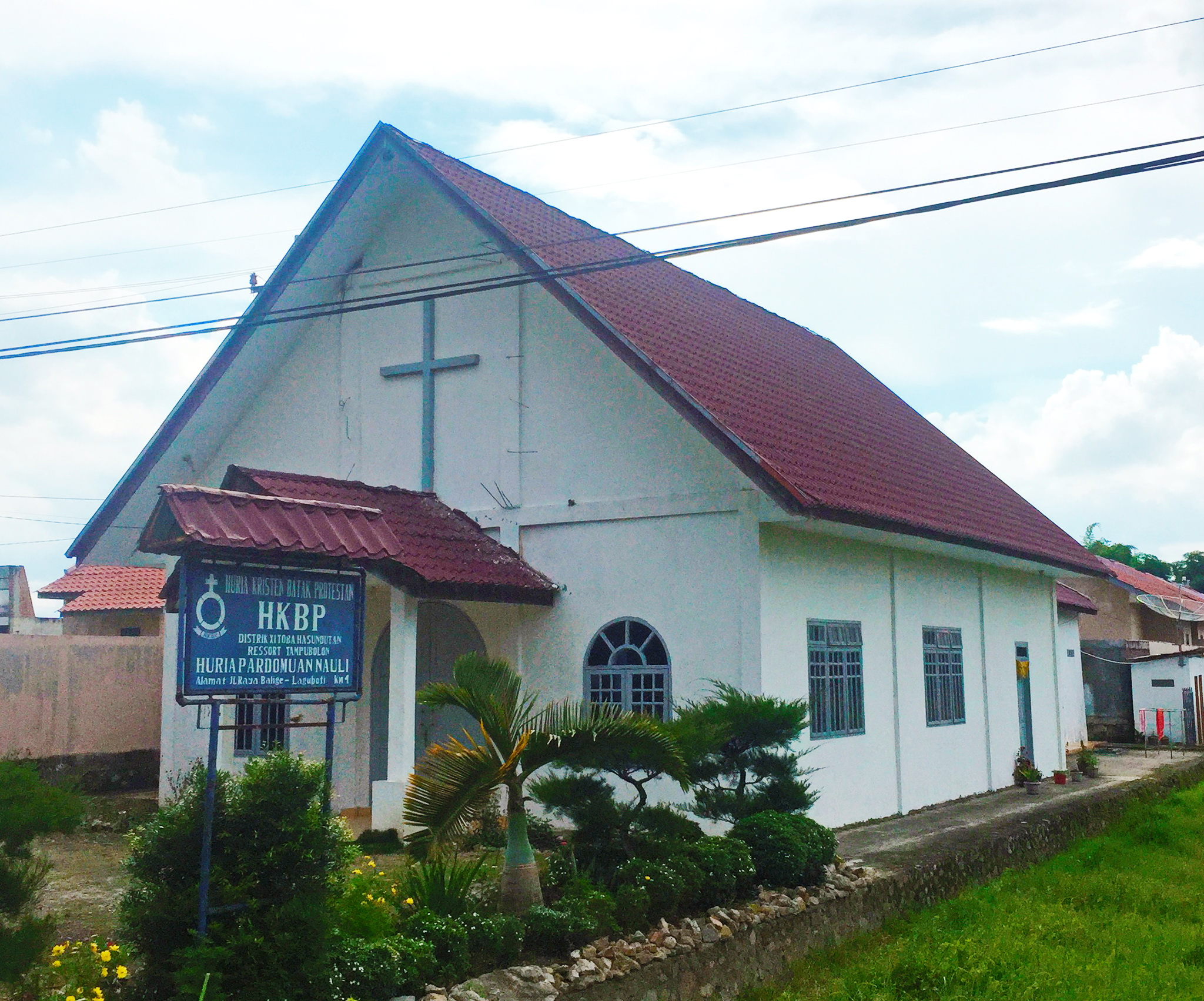 HKBP Pardomuan Nauli, Church in Balige, Toba Samosir